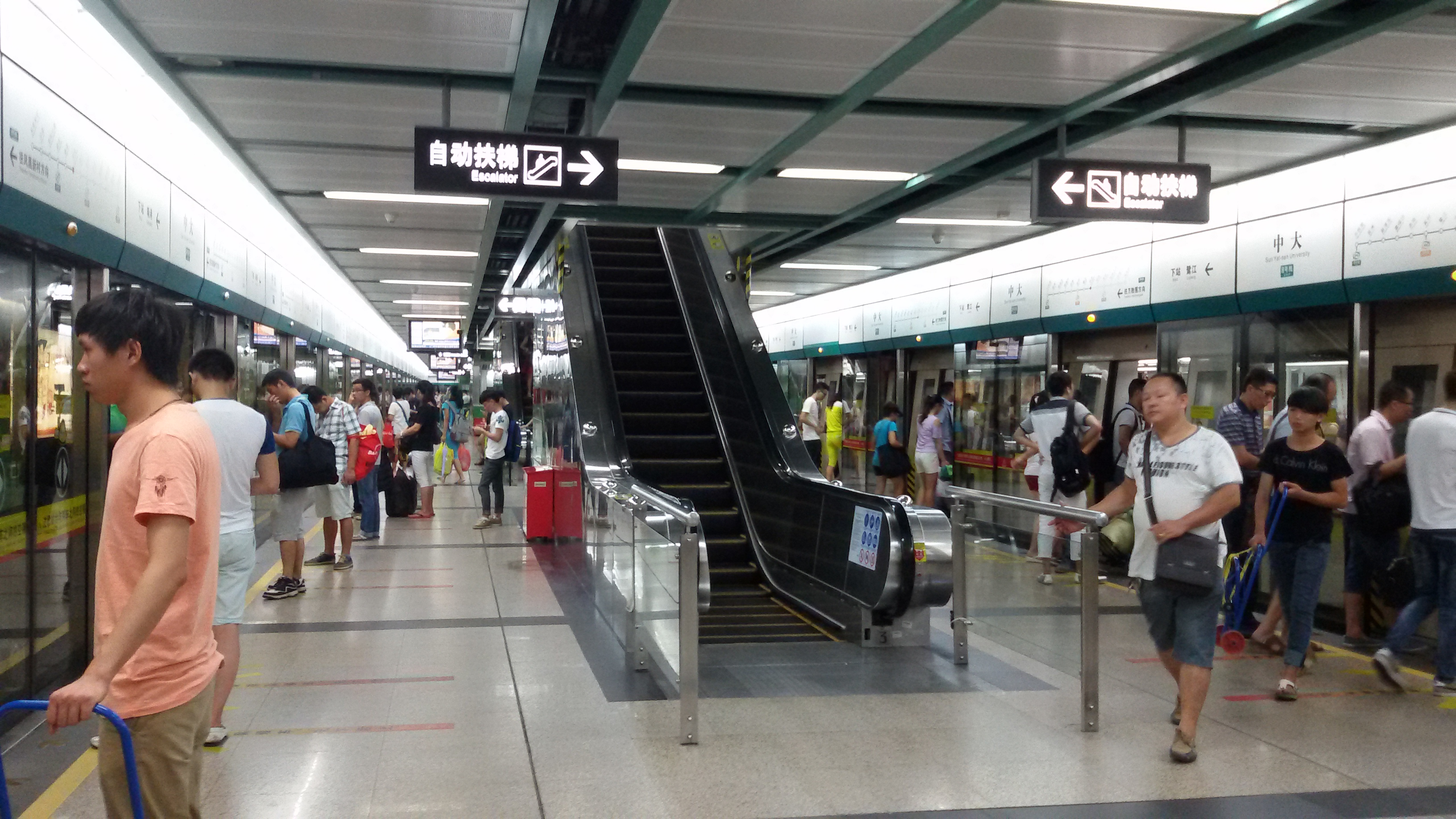 Station Platform for Sun Yat-sen University Station, Guangzhou Metro.